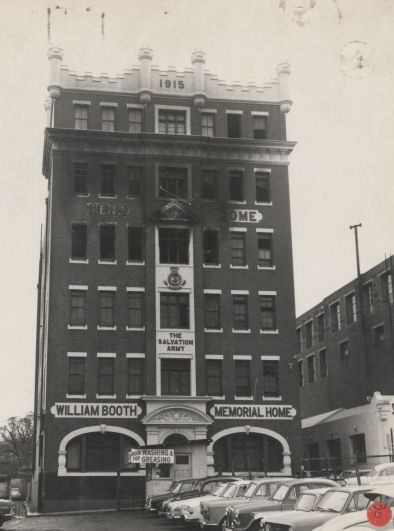 Shows the aftermath of Australia's deadliest building fire in 1966 at the William Booth Memorial Home, Melbourne